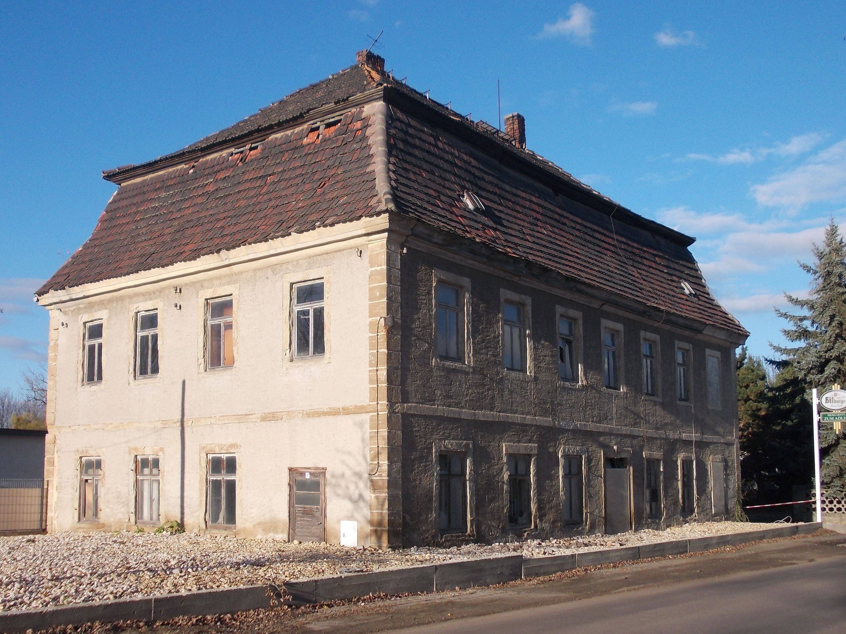 Manor house in Traupitz (Elsteraue, district: Burgenlandkreis, Saxony-Anhalt)